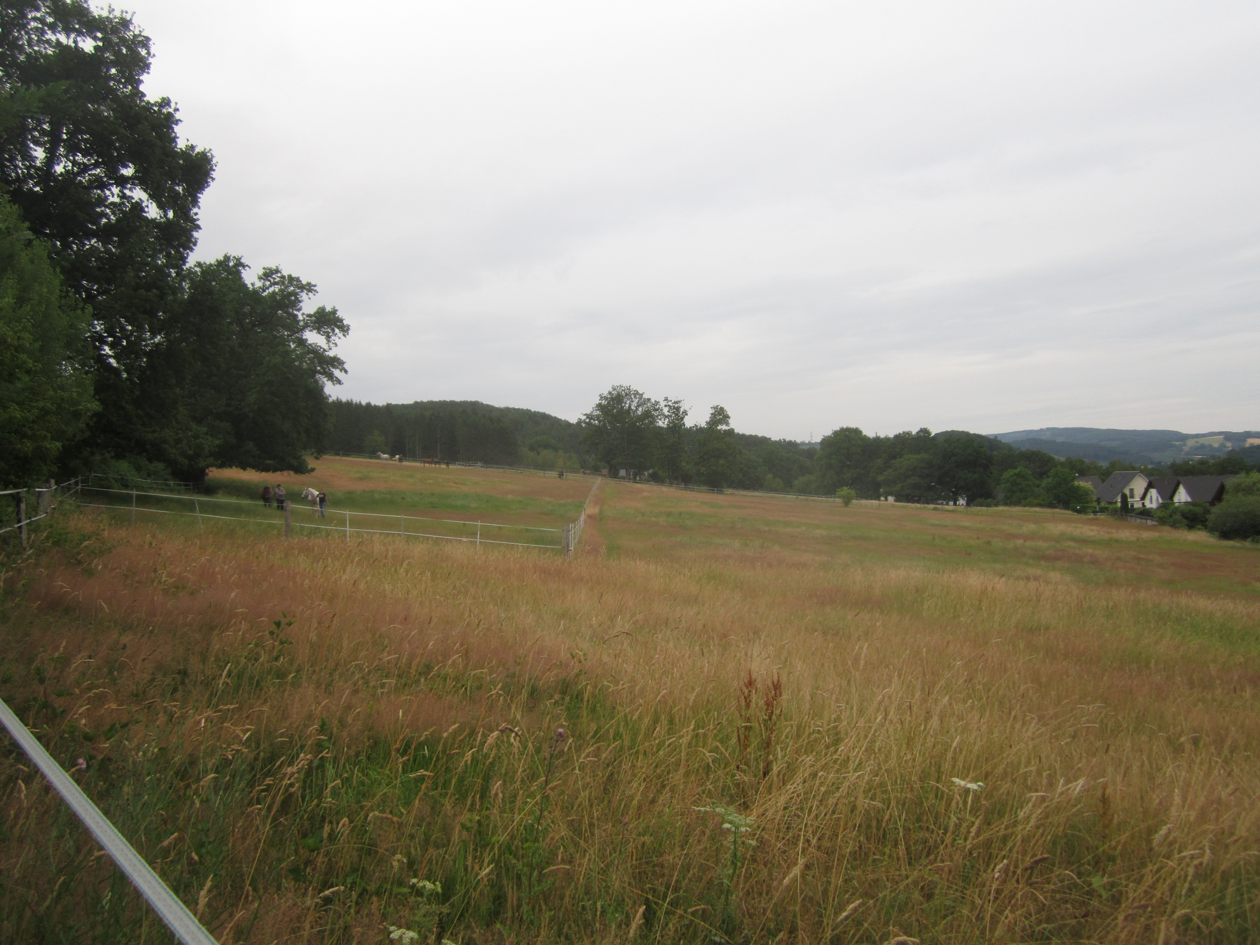 Landschaftsschutzgebiet Ortsrandlagen Kernstadt Sundern (Landschaftsschutzgebiet = IUCN protected area categorie: Category V – Protected Landscape/Seascape/Area)